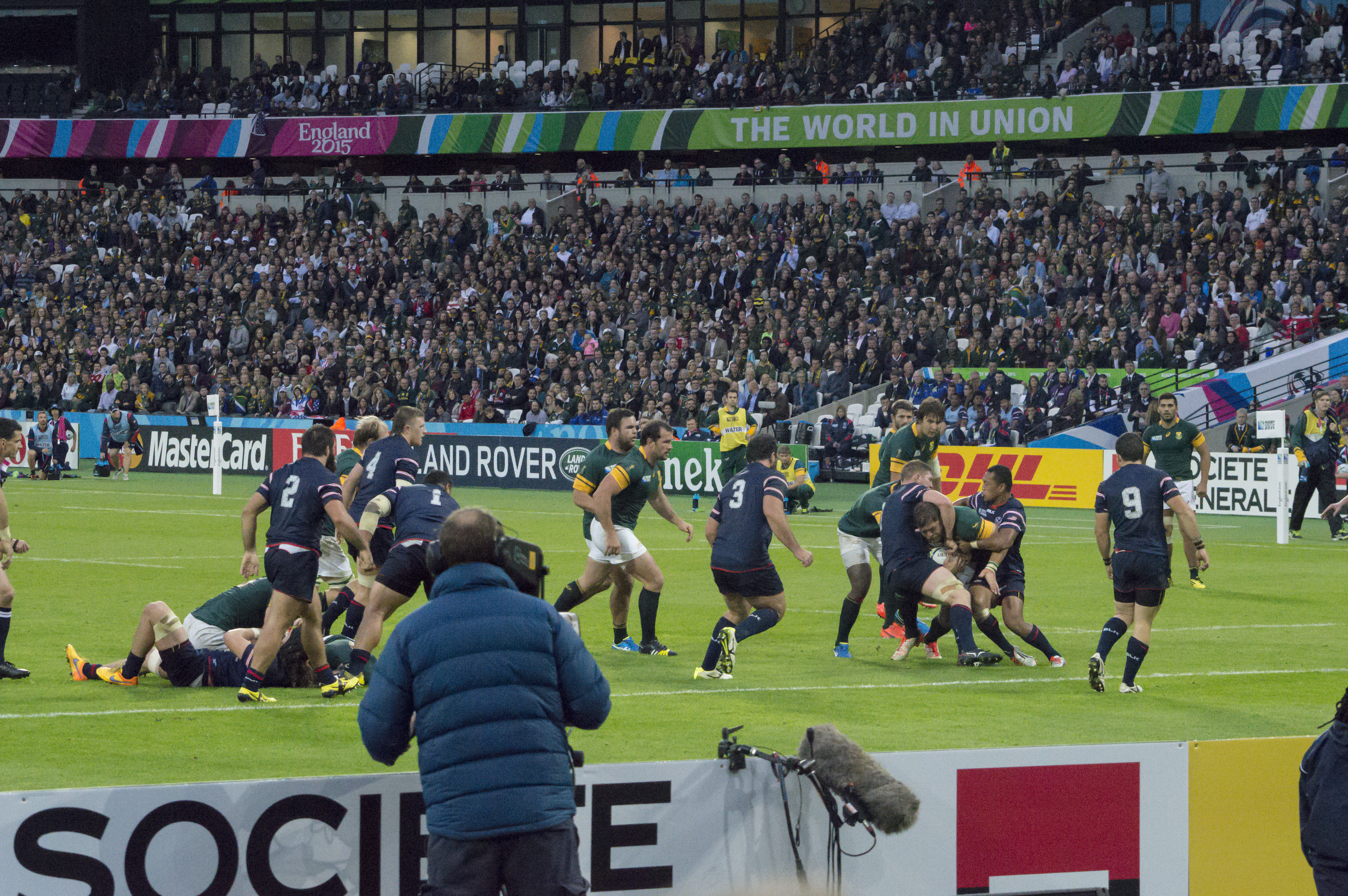 2015 Rugby World Cup game between South Africa and the United States played at the Olympic Stadium in London.